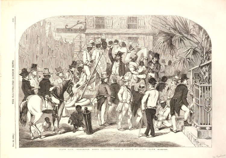 "Slave sale, Charleston, South Carolina," wood engraving, by an unknown engraver, page taken from the Illustrated London News, 1856. Courtesy of the British Museum, London.